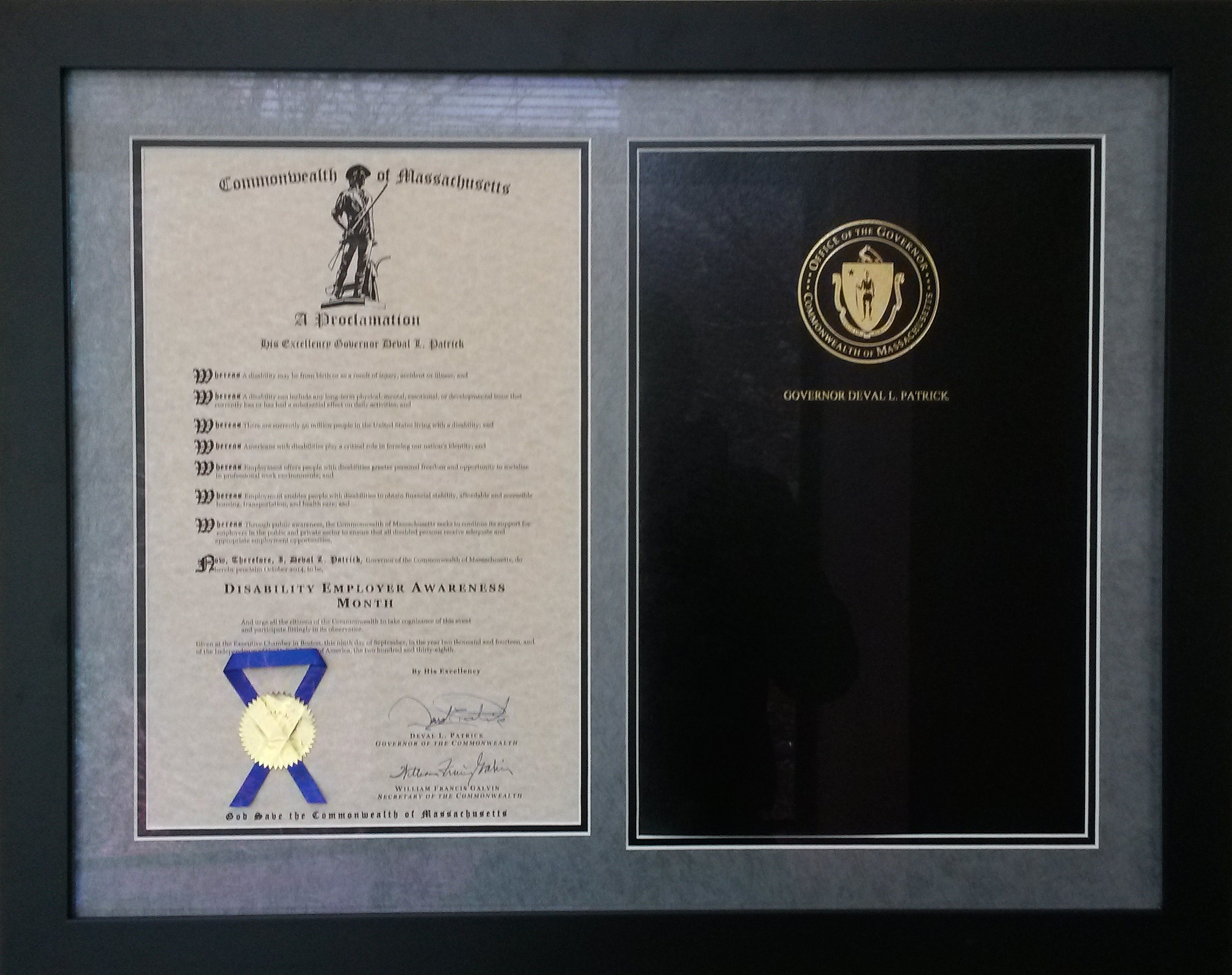 It is a proclamation stating that NTI helps individuals with disabilities.